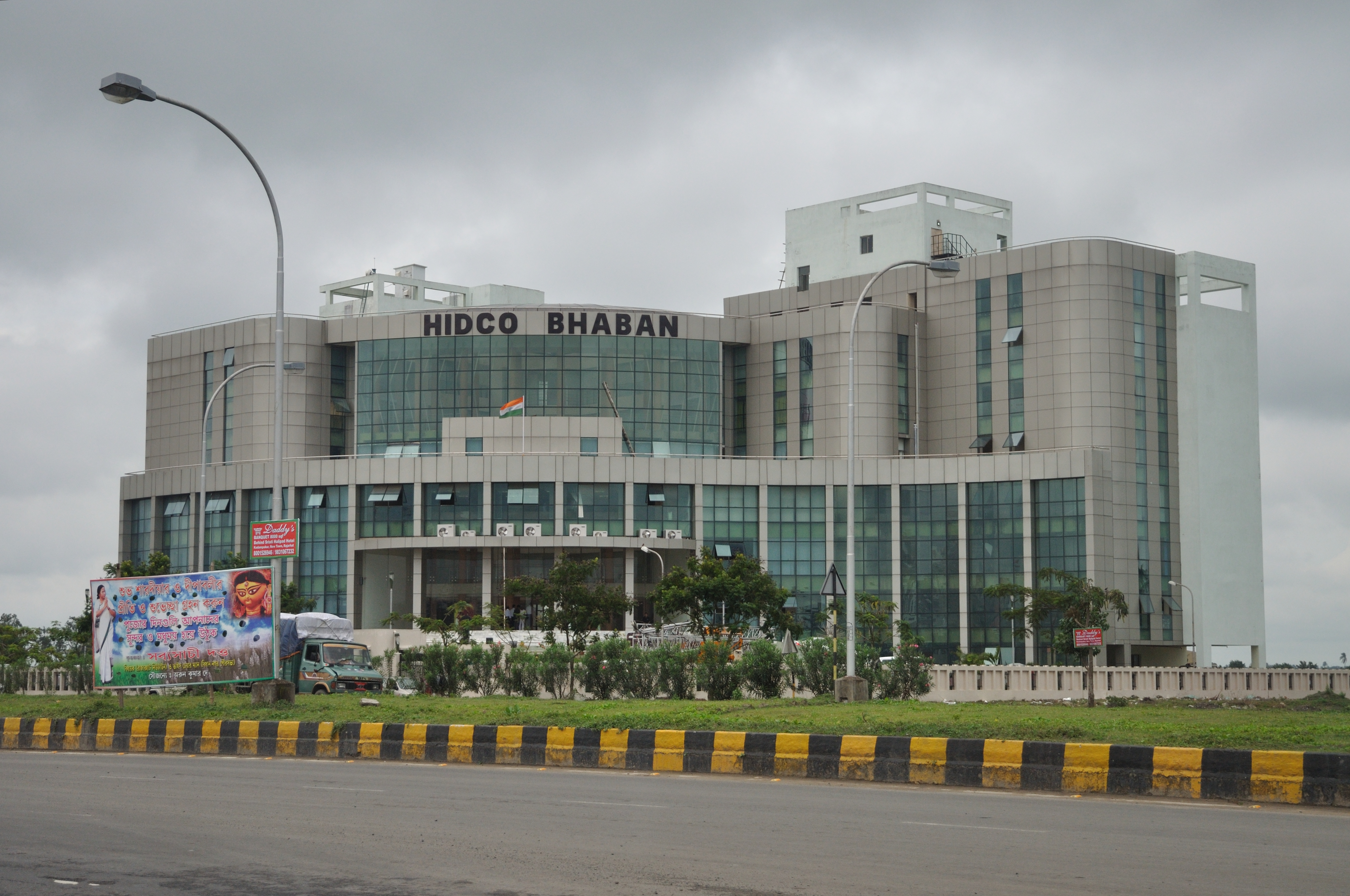 Rajarhat. This media file is uploaded with India loves Wikipedia event.